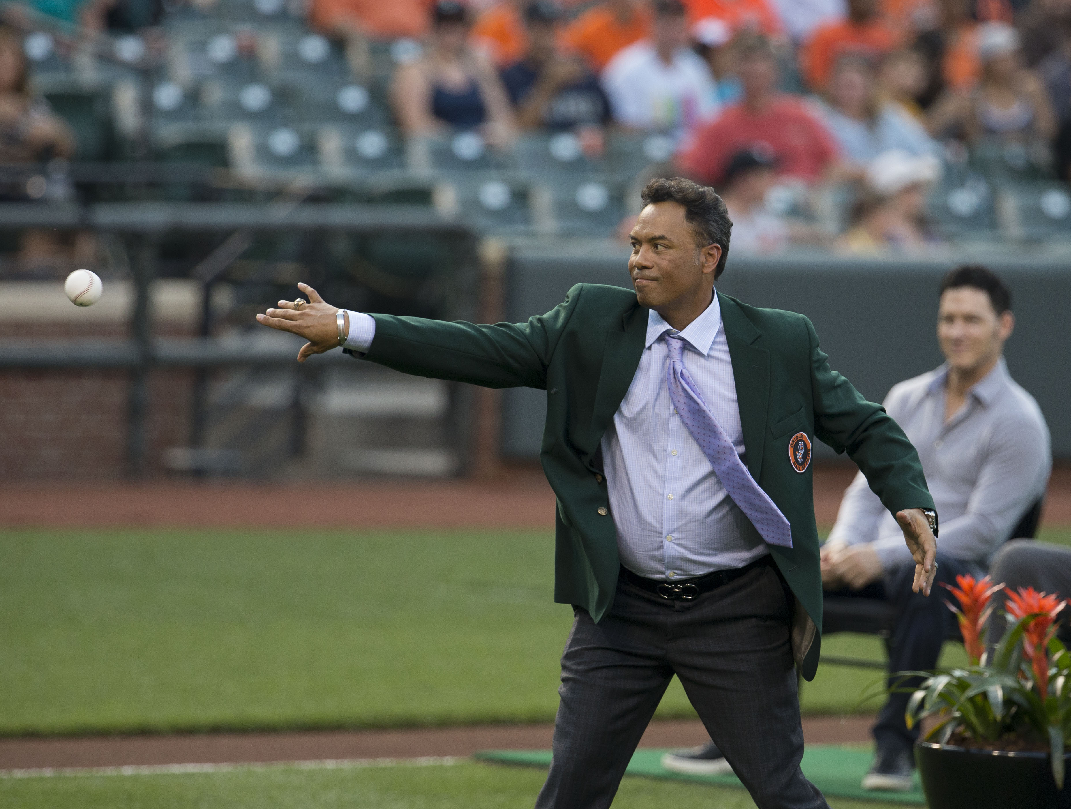 Former Baltimore Oriole Roberto Alomar in the Orioles Hall of Fame ceremony before a game against the Seattle Mariners at Oriole Park at Camden Yards on August 2, 2013 in Baltimore, Maryland.